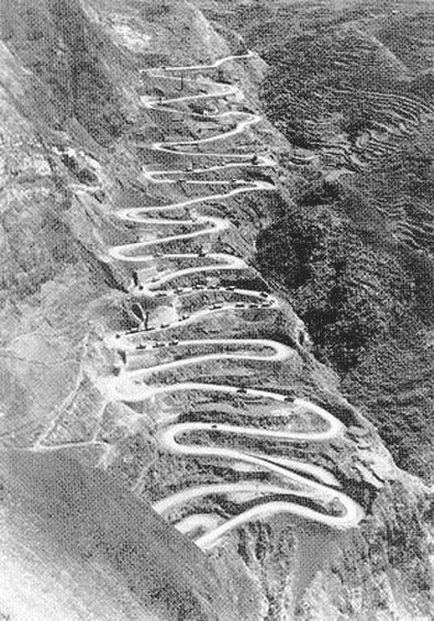 US Convoys ascending a famous 24-curve stretch along the Burma Road on the way to war time China, when China was facing a years long total blockade on sea and land by Imperial Japan.